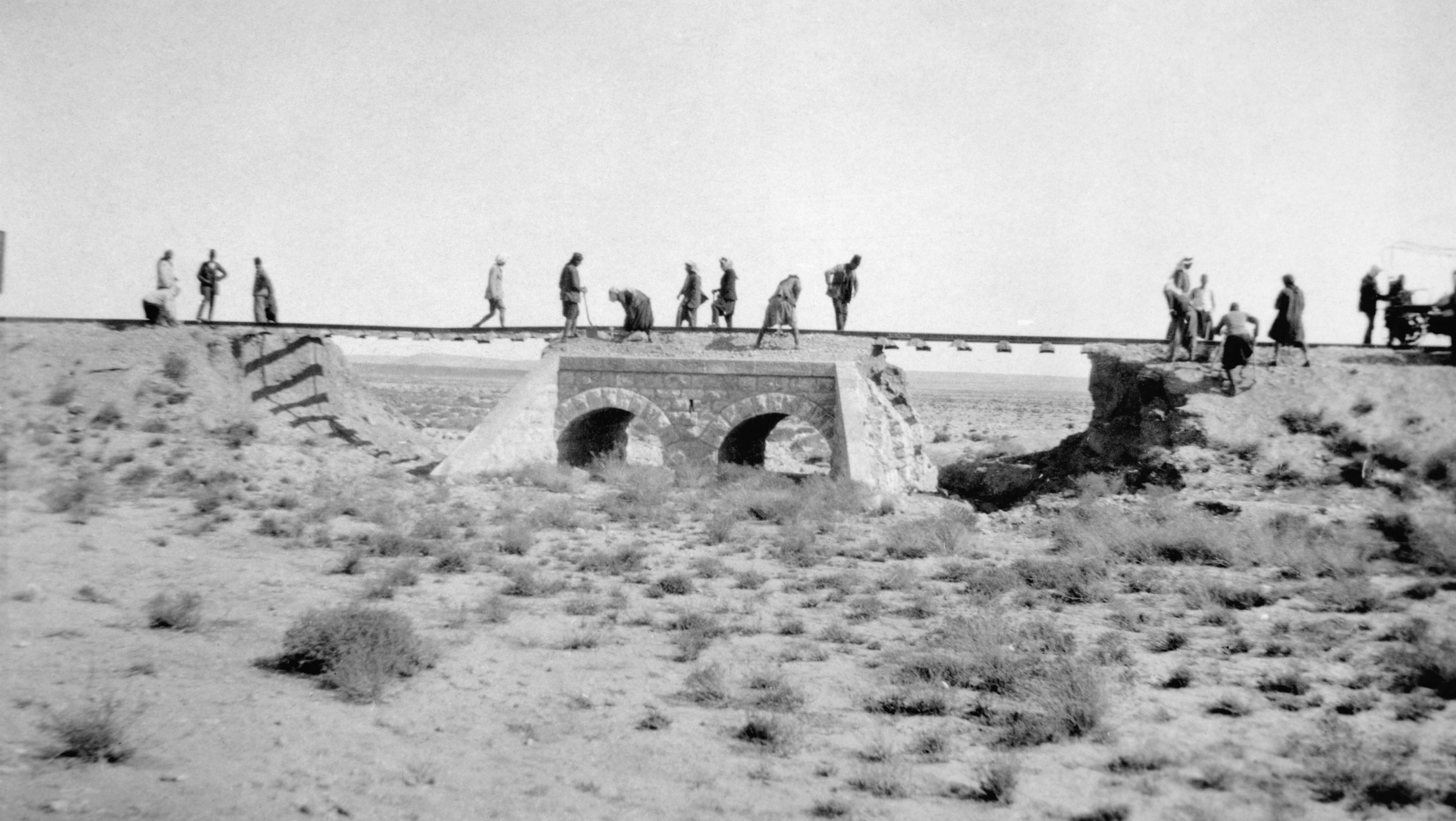 T E Lawrence and the Arab Revolt 1916 - 1918 Repairing the railway track near Maan.